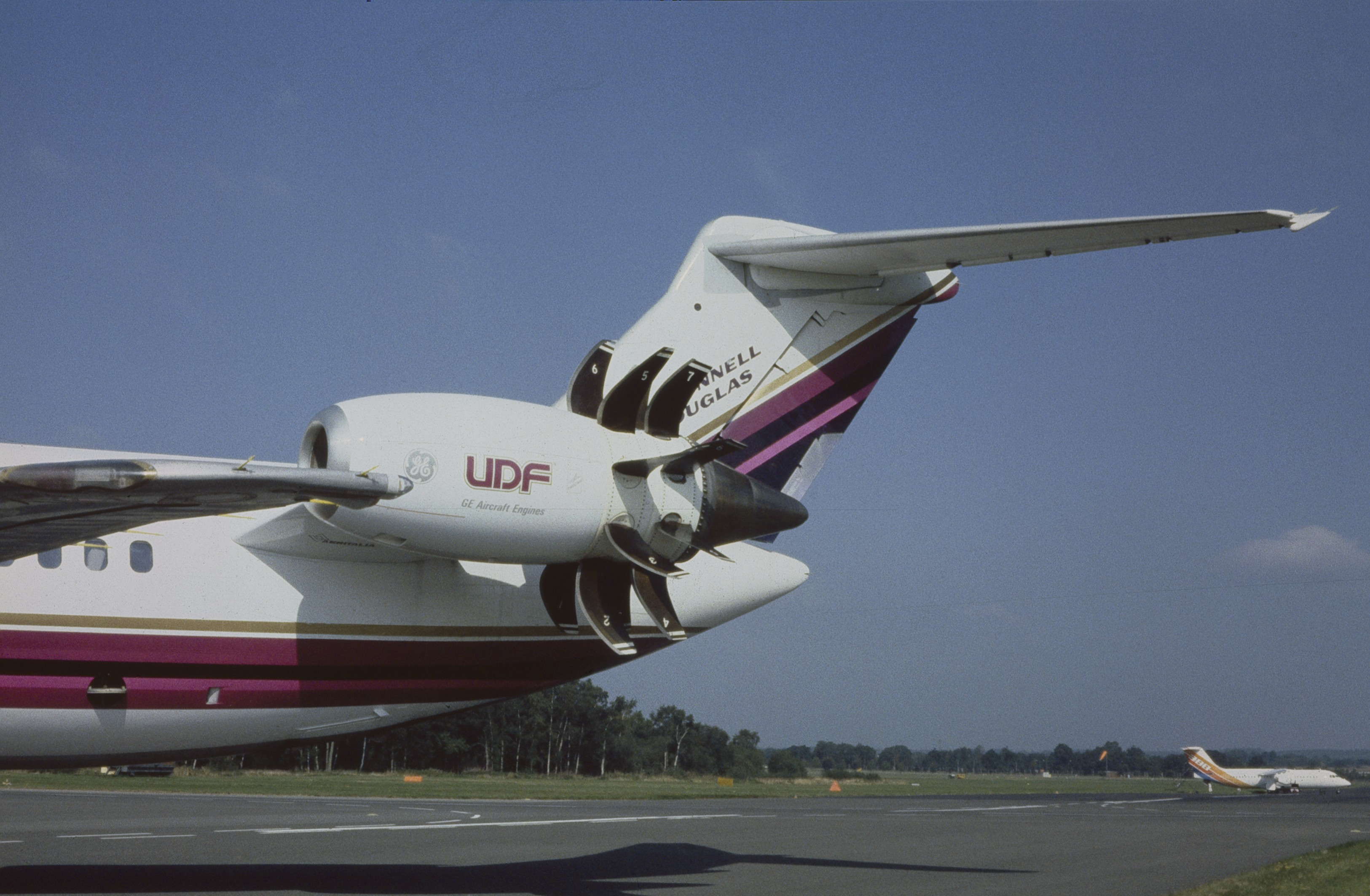 McDonnell Douglas MD-81(UHB) (N908DC was the prototype MD-80 airframe and was broken up for spares at Sherman, TX in 1994). Farnborough (FAB / EGLF) UK - England, September 1988